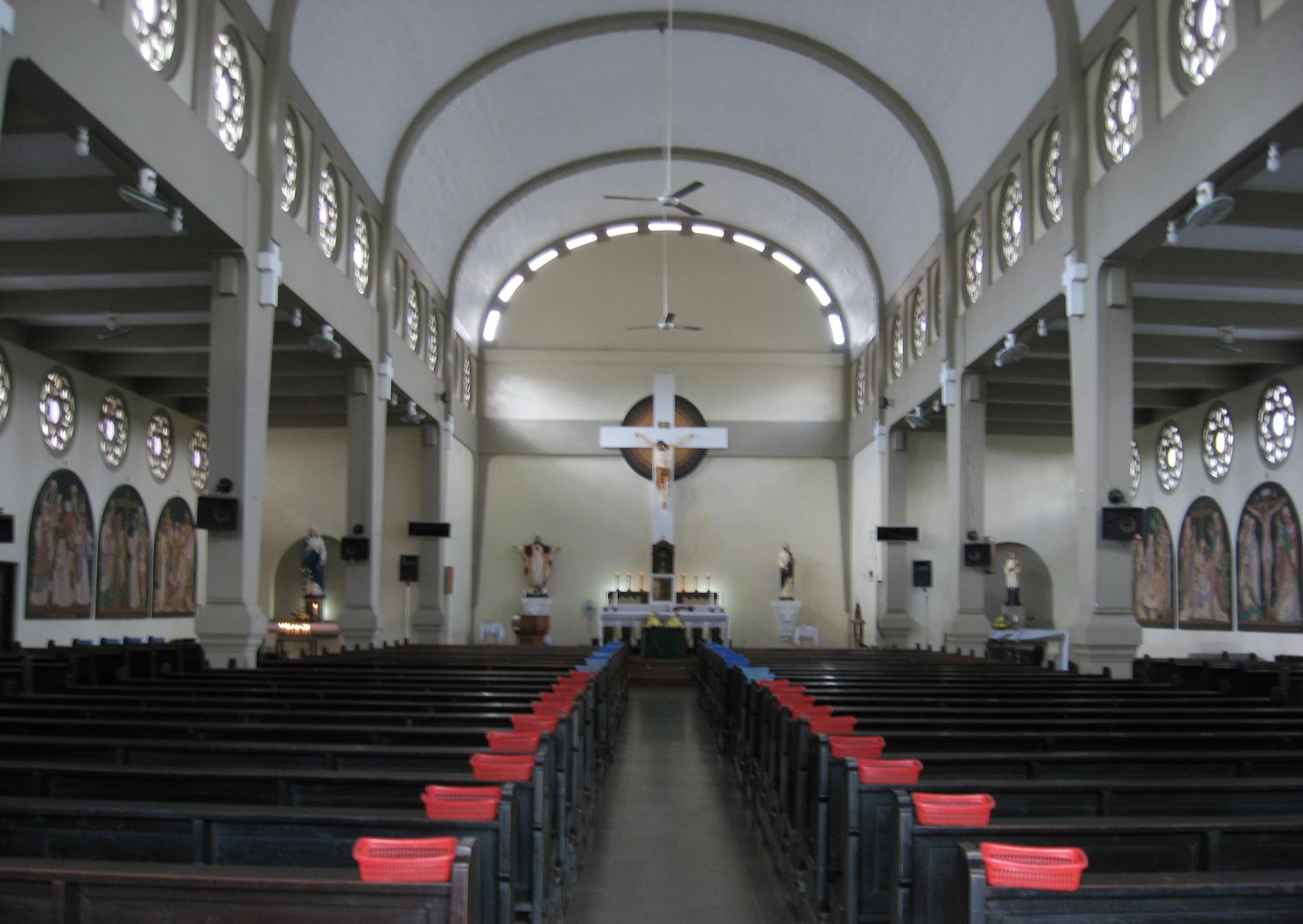 St Yoseph Church in Bintaran, Yogyakarta